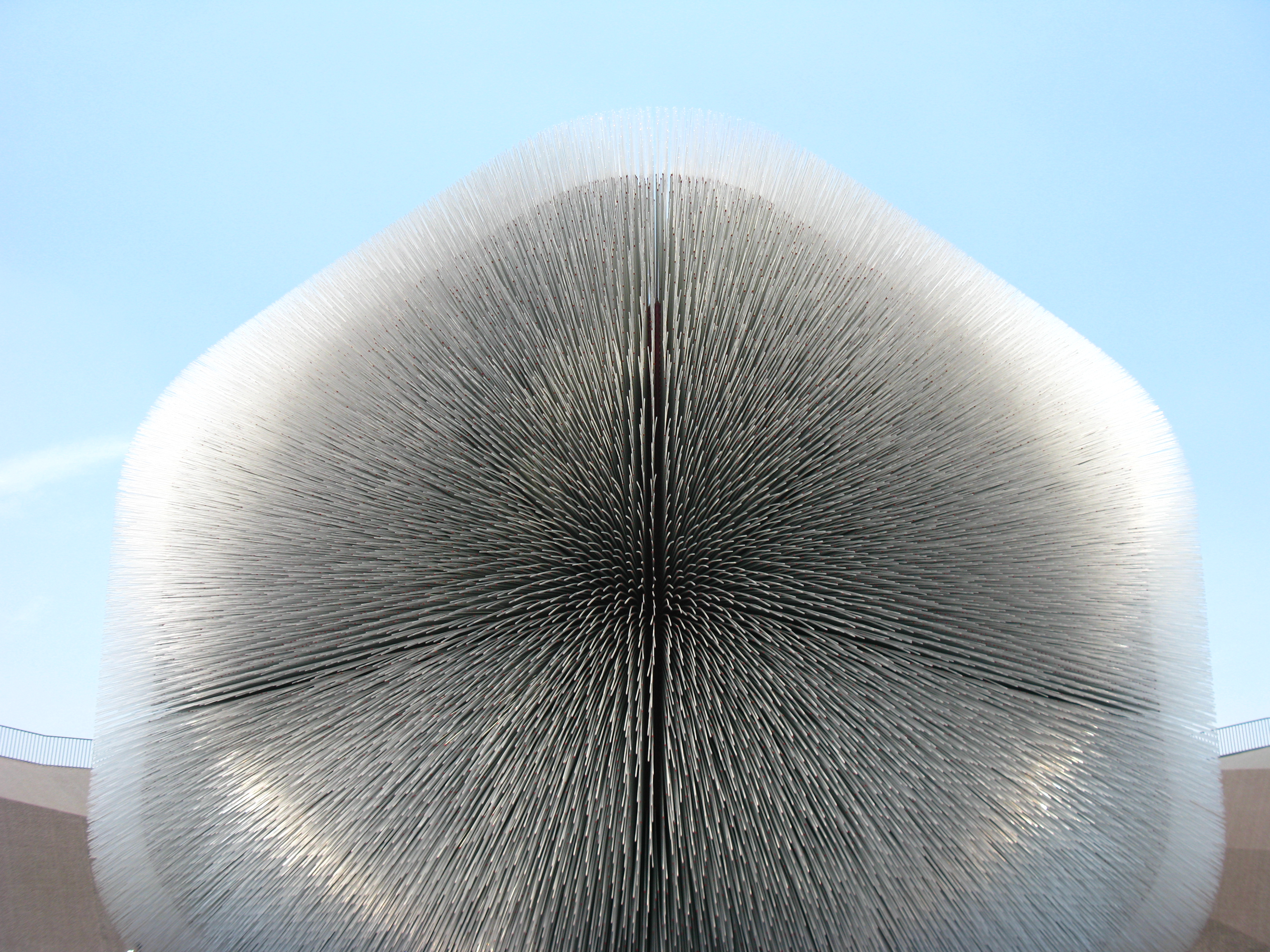 Dandelion with Union Jack